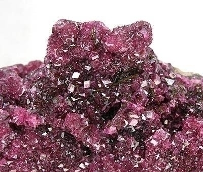 Spherocobaltite Locality: Kolwezi, Western area, Katanga Copper Crescent, Katanga (Shaba), Democratic Republic of Congo (Zaïre) (Locality at ) Size: 11.5 x 6.0 x 4.5 cm. This is the largest specimen I have ever seen of this rare material often mistaken for the more common species cobaltoan calcite, and it is studded with bright, lustrous, translucent, magenta-colored crystals to .5 cm. I must say that the color is the deepest I have seen for this species, as well. It is vibrant. And, for such a rarity, a real treasure.